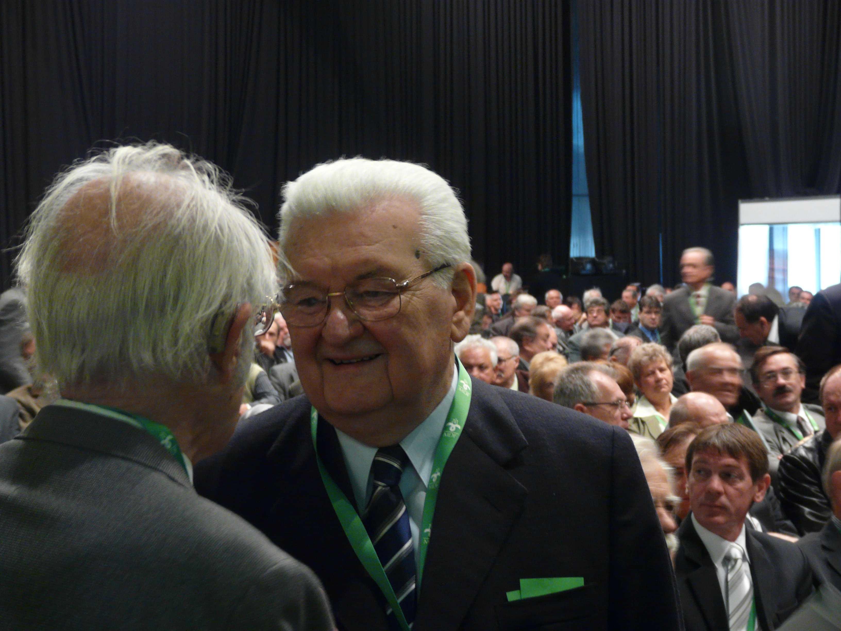 Live on the 27th of September, 2008. The Magyar Demokrata Fórum (Hungarian Democratic Forum party) held its XXII.th congress. Péter Boross. ©© Published under Creative Commons in the Metapolisz DVD line. All of the photos and vids in the Metapolisz DVD line are under Creative Commons and can be used even for commercial – for profit – purposes. Recommended Citation Derzsi Elekes Andor: Metapolisz DVD line